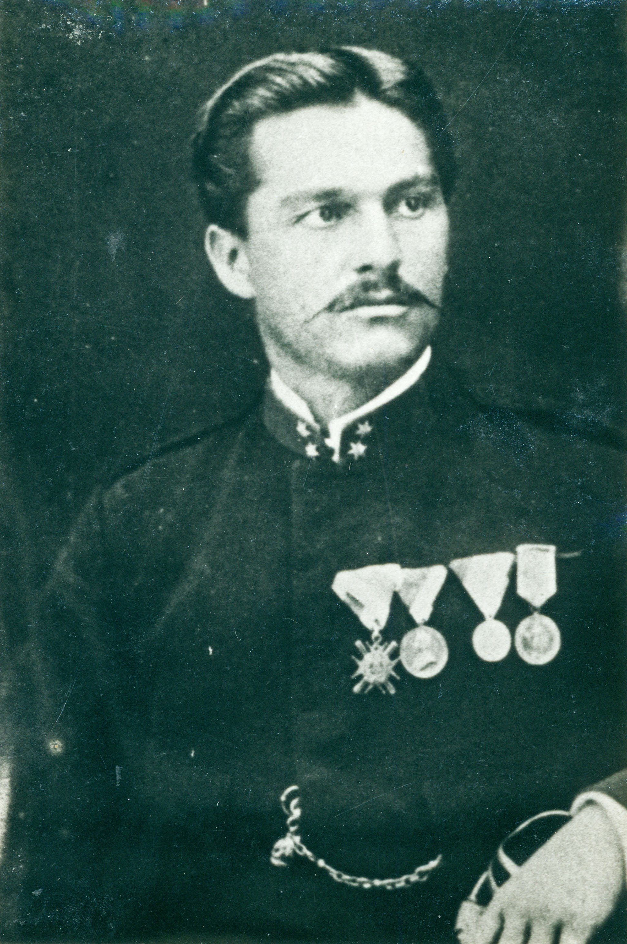 Simo Sokolov